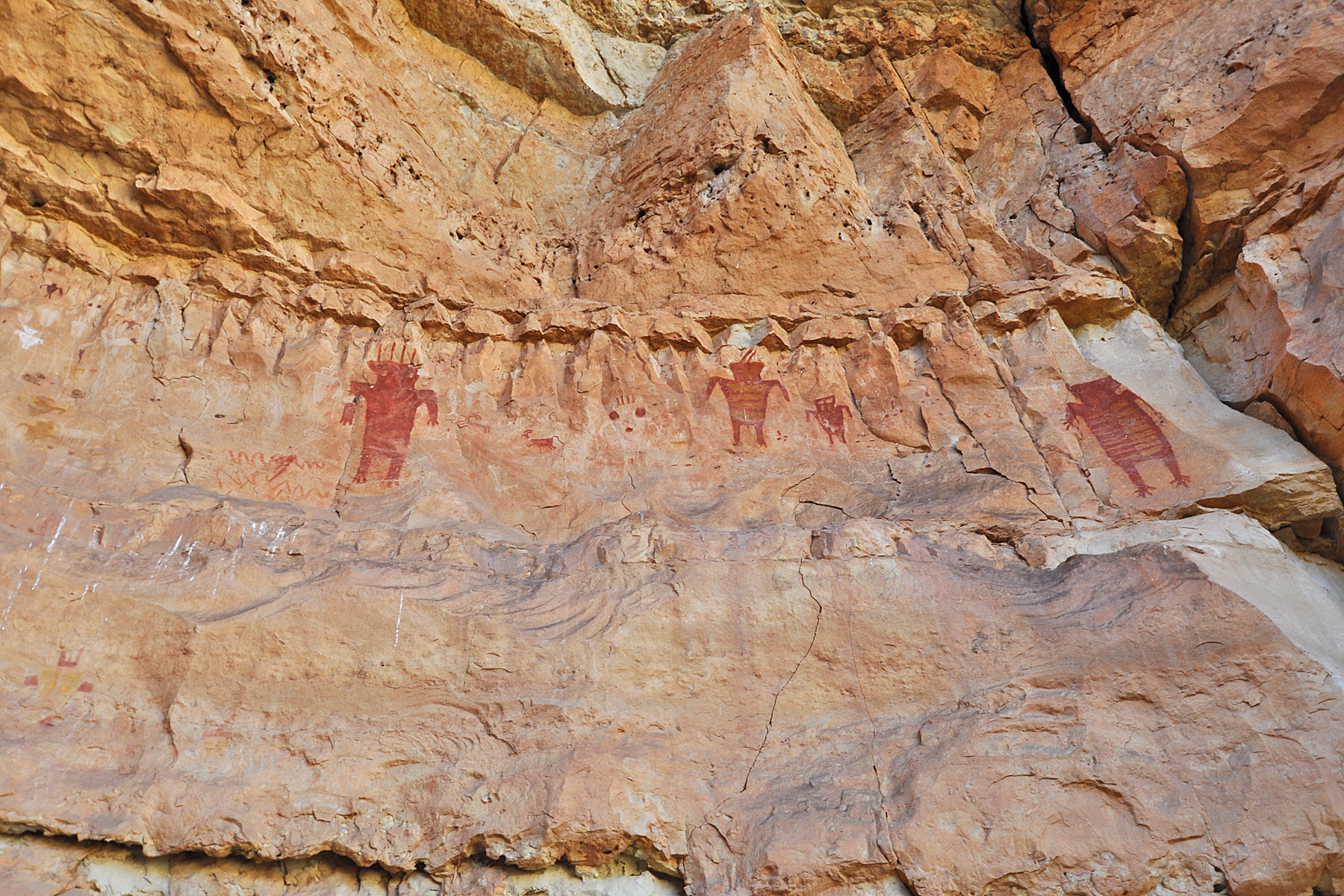 A view of the Rock Family pictograph site at Table Rock in Snake Gulch, which lies within Kanab Creek Wilderness on the North Kaibab Ranger District of the Kaibab National Forest. Please give credit to: Kaibab National Forest, Southwestern Region, USDA Forest Service.